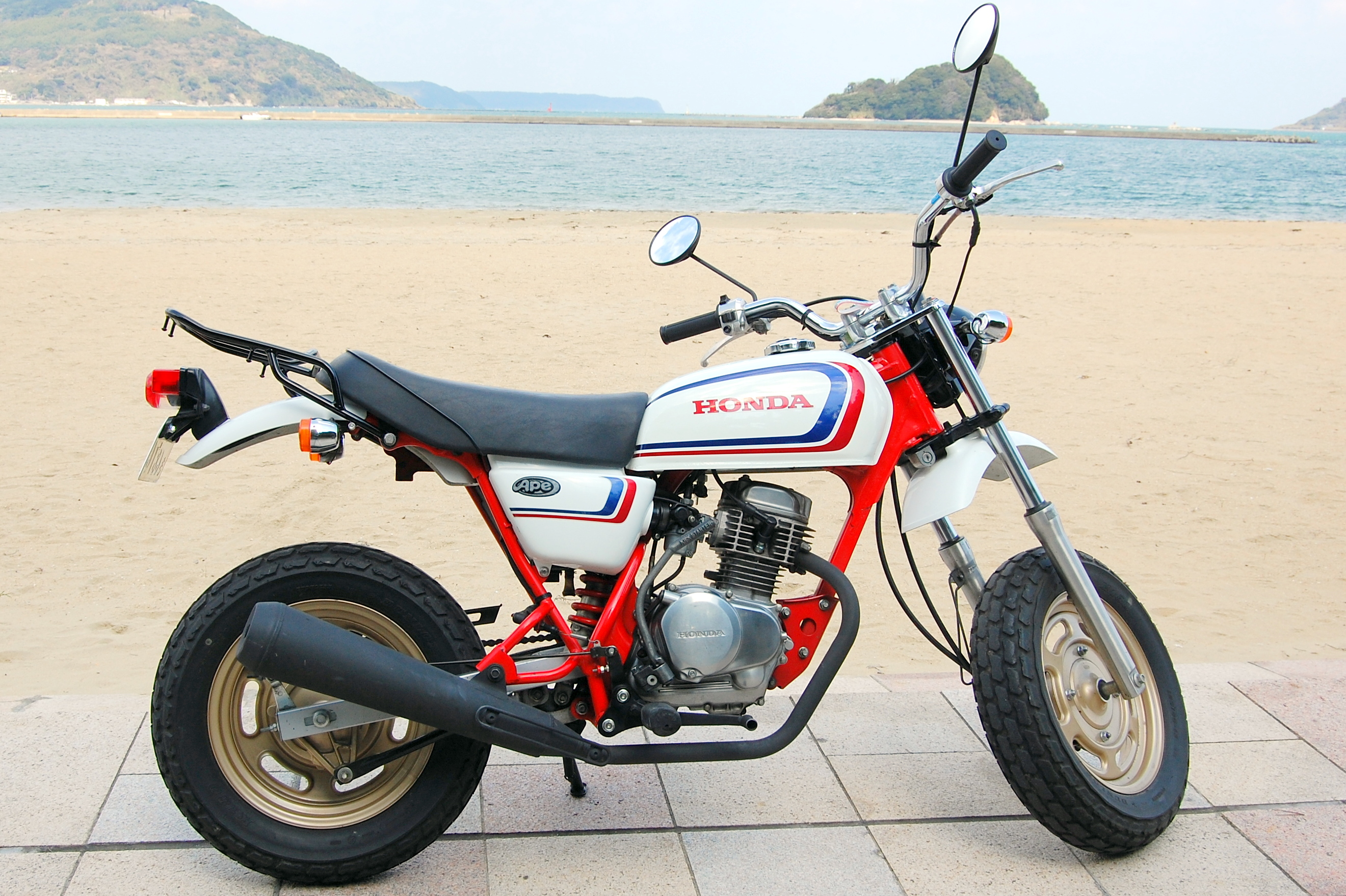 Honda Ape 50cc 2007